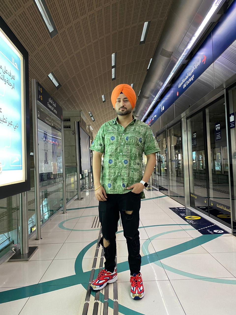 MixSingh in dubai